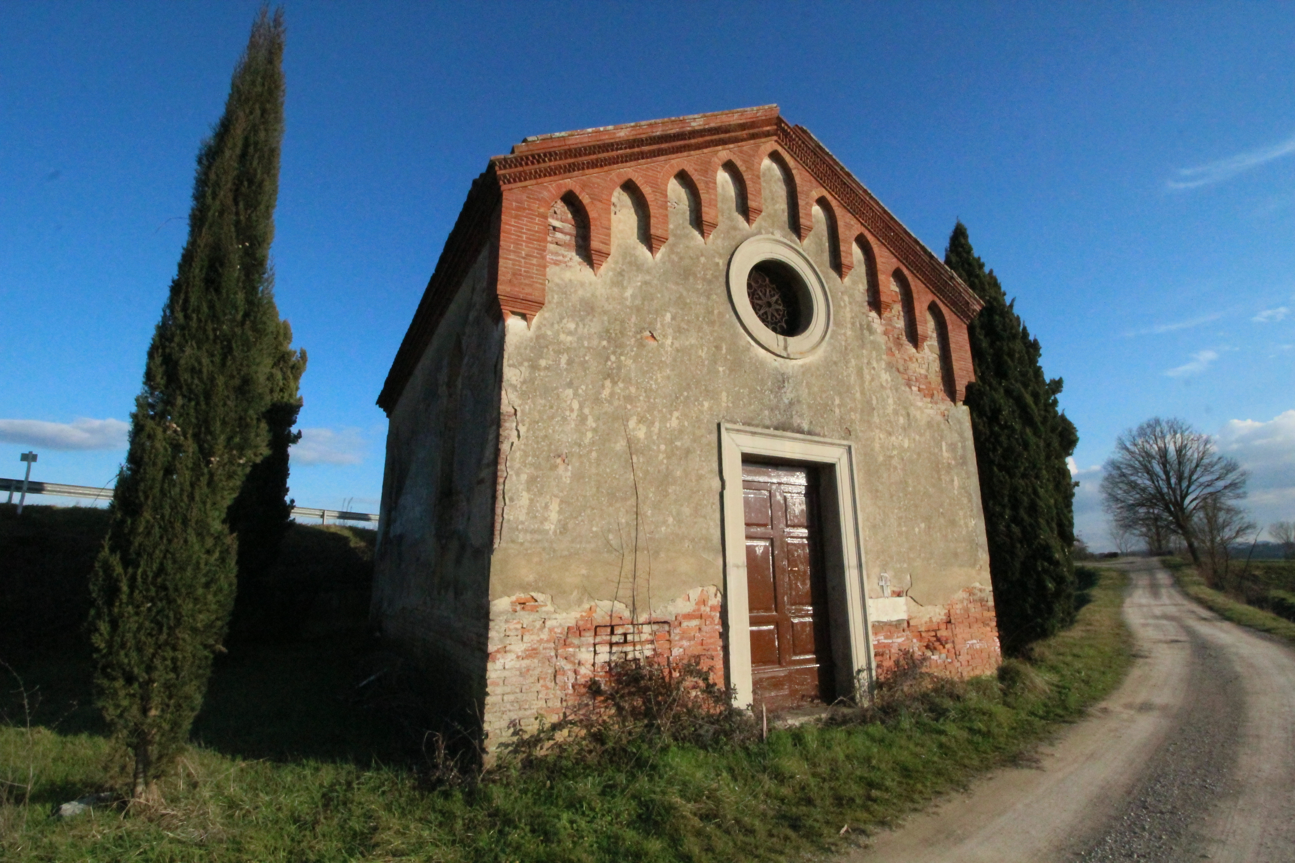 Church San Giovanni alla Fratta, in La Fratta, hamlet of Sinalunga, Valdichiana, Province of Siena, Tuscany, Italy